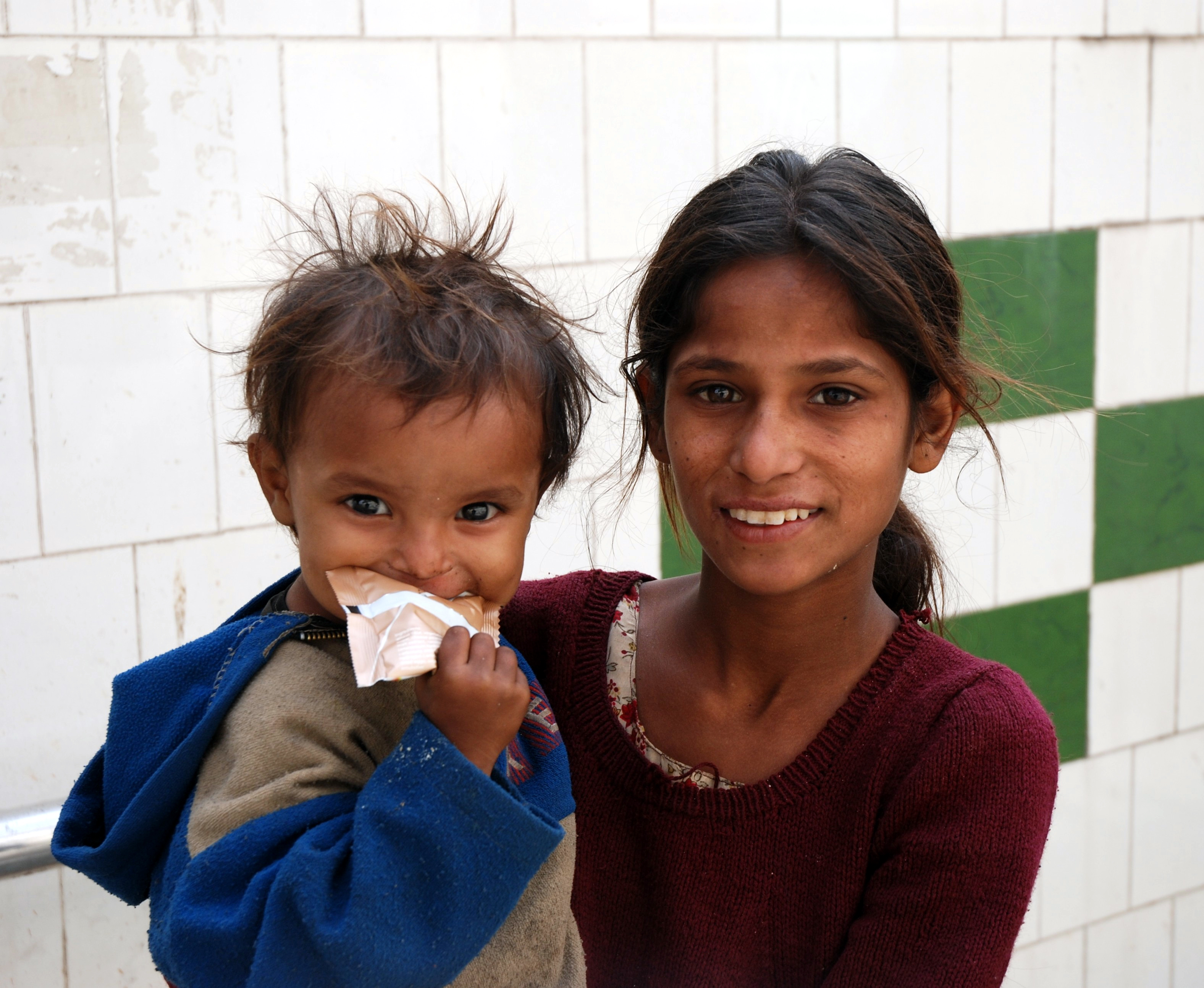 Children in Delhi, India